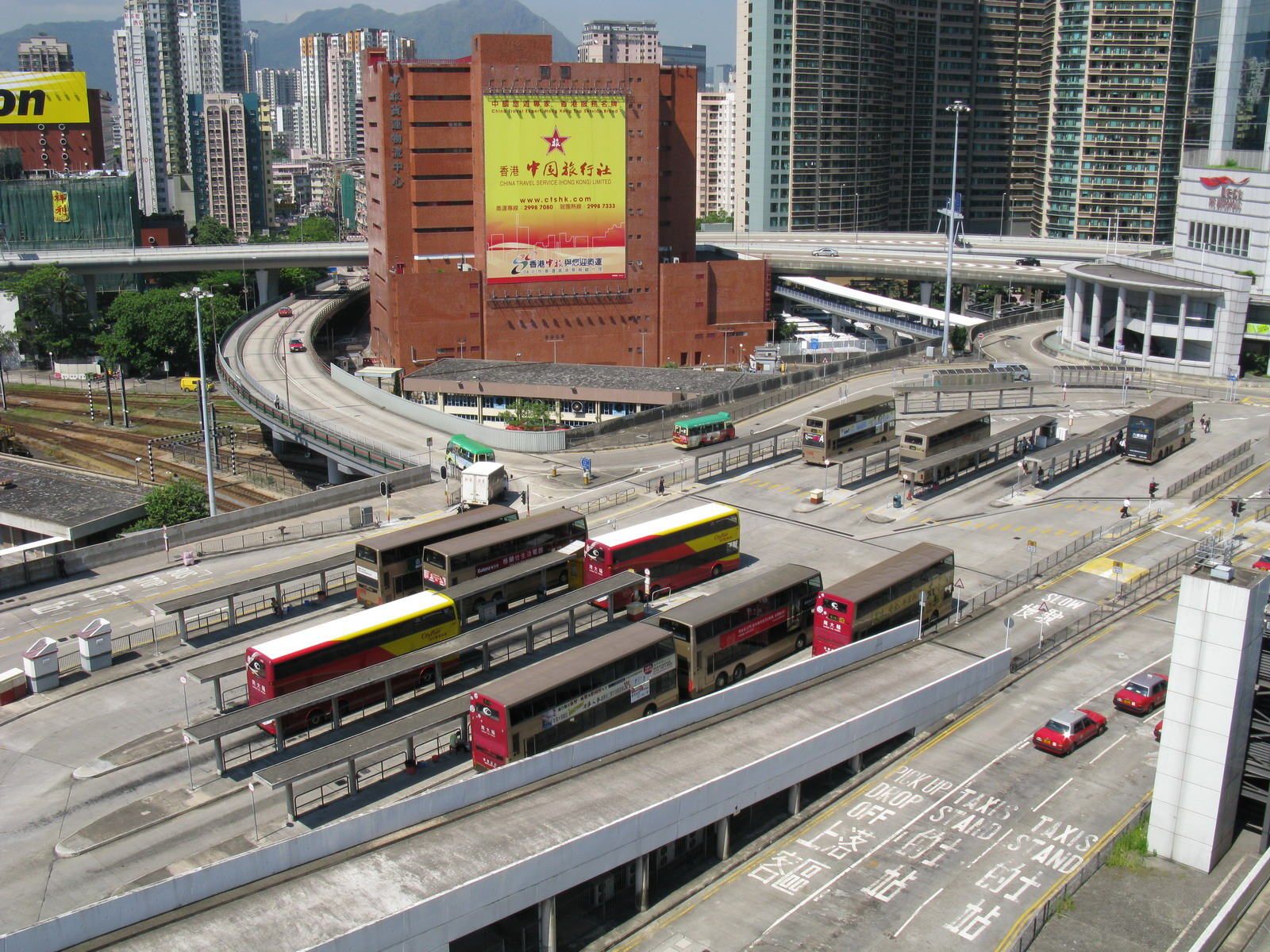 Hung Hom Station Public Transport Interchange 中文（香港）: 紅磡車站公共運輸交匯處